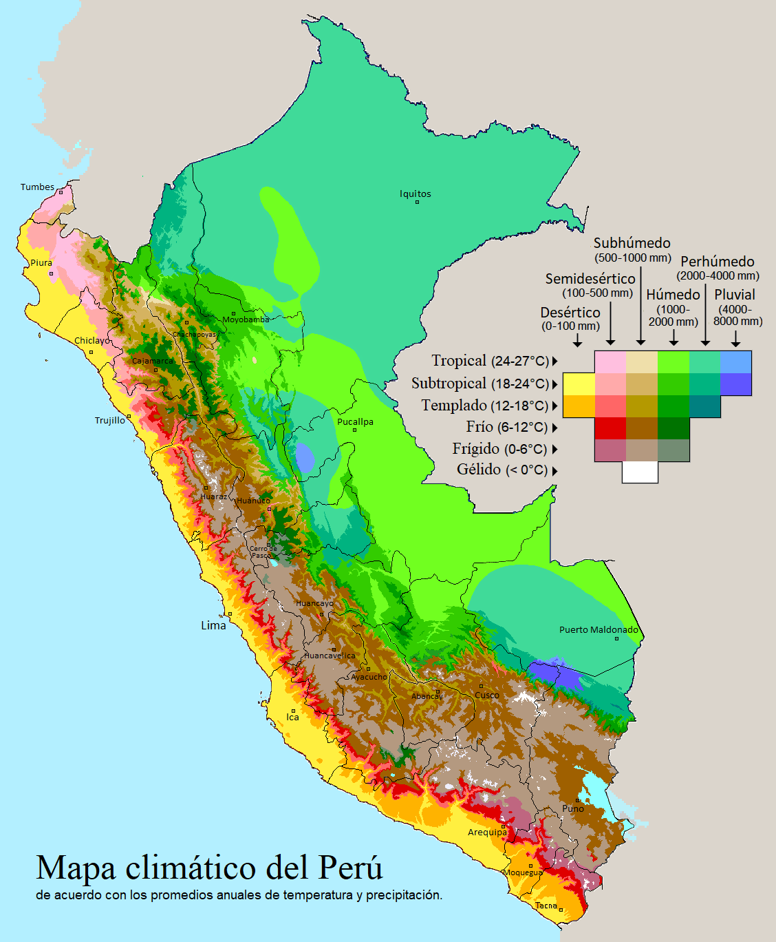 Climate map of Peru according to annual averages of temperature and precipitation.